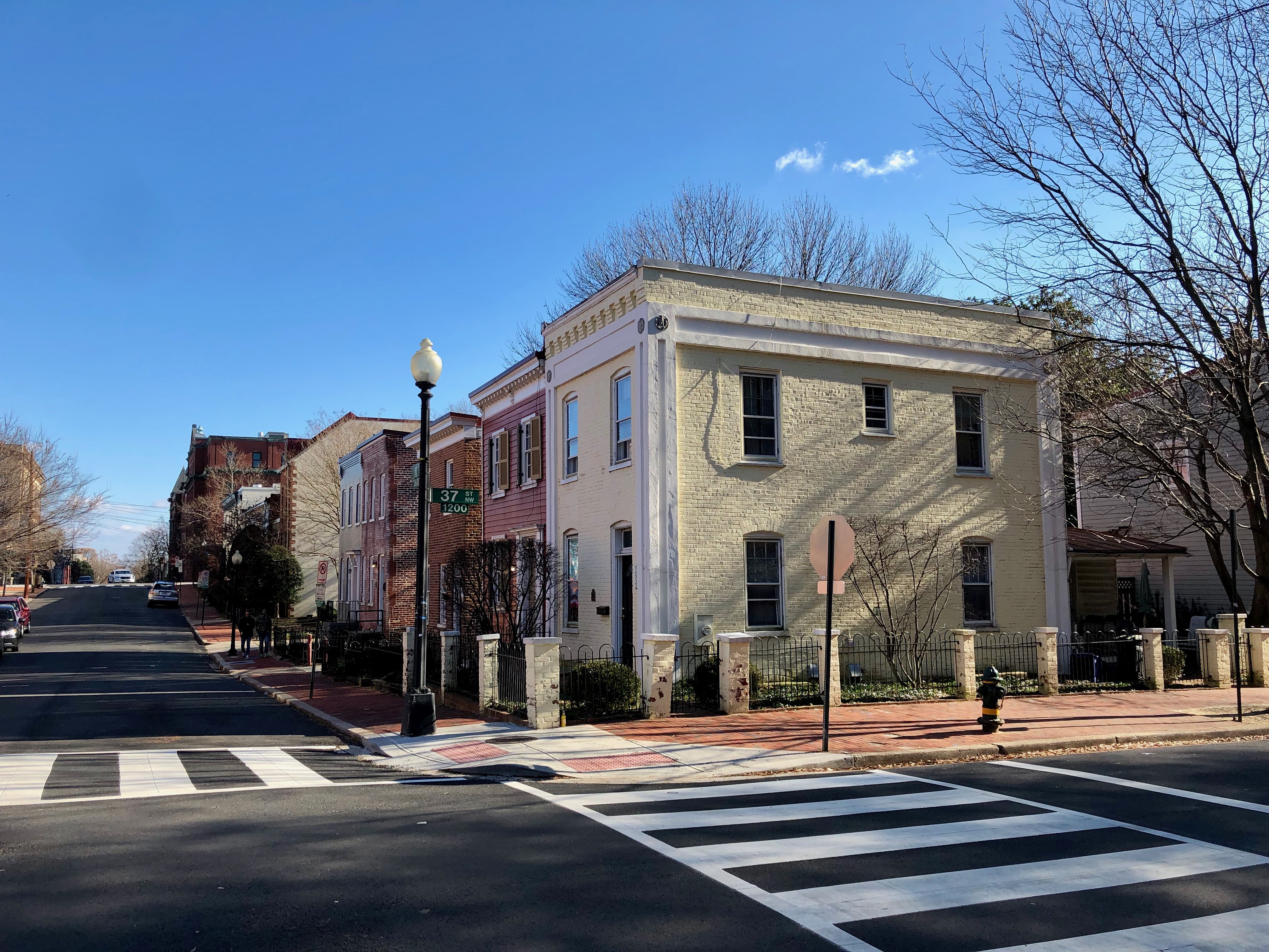 N Street NW, Georgetown, Washington, DC